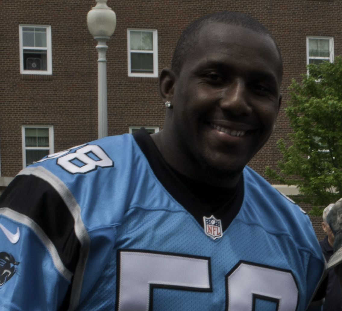 Carolina Panthers linebacker, Thomas Davis, visiting soldiers at the Joint Base Myer-Henderson Hall.